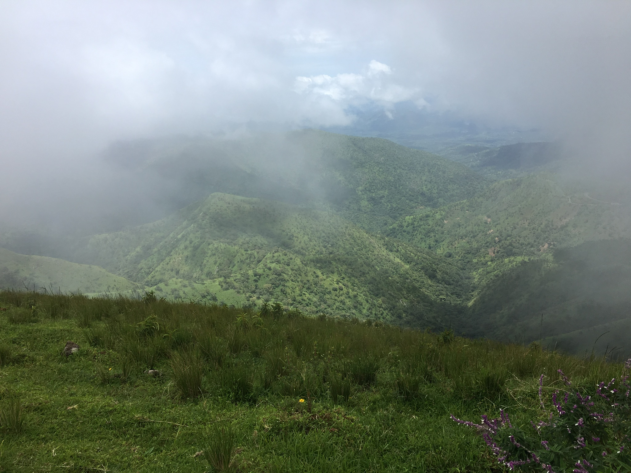 1200 km above sea level in the serene mountain ranges of Obudu in Cross River, Nigeria.